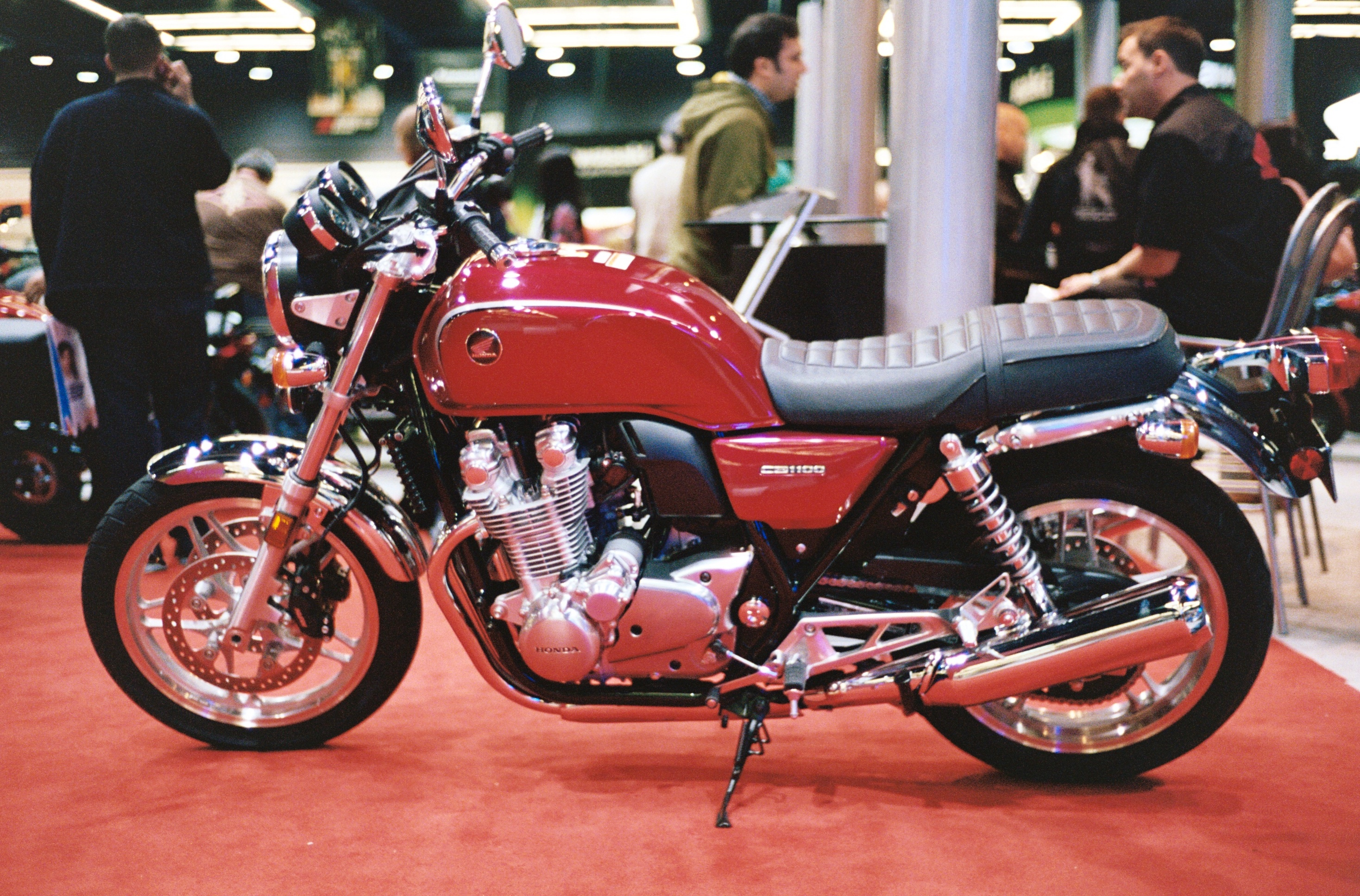 2014 Seattle International Motorcycle Show